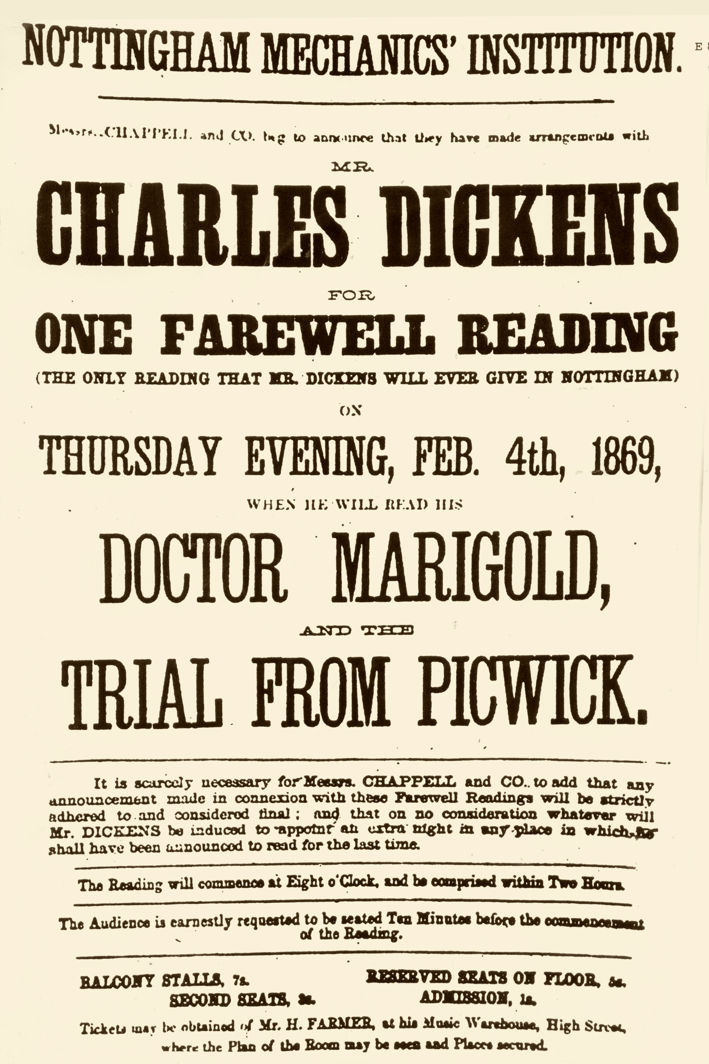 Poster promoting reading by Charles Dickens in Nottingham